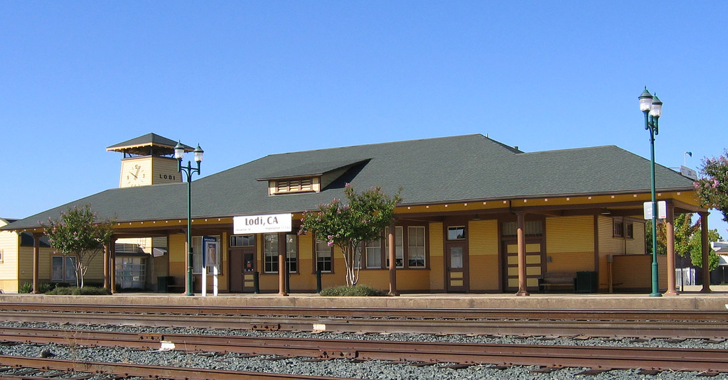 Lodi Amtrak station — on the San Joaquin line, in Lodi, California. Built as a Southern Pacific Railroad station and depot in 1907. Moved and restored in 2002, as the city's Amtrak station and transit center.